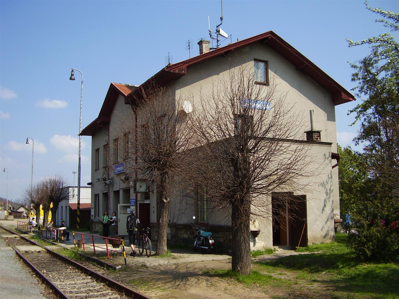 Train station in Lochovice in Central Bohemian Region